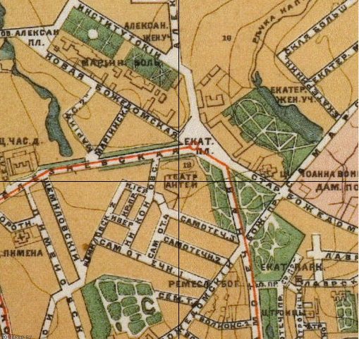 A fragment of a 1907 map showing the location of the Antey theater in the "old" Hermitage garden in Moscow.